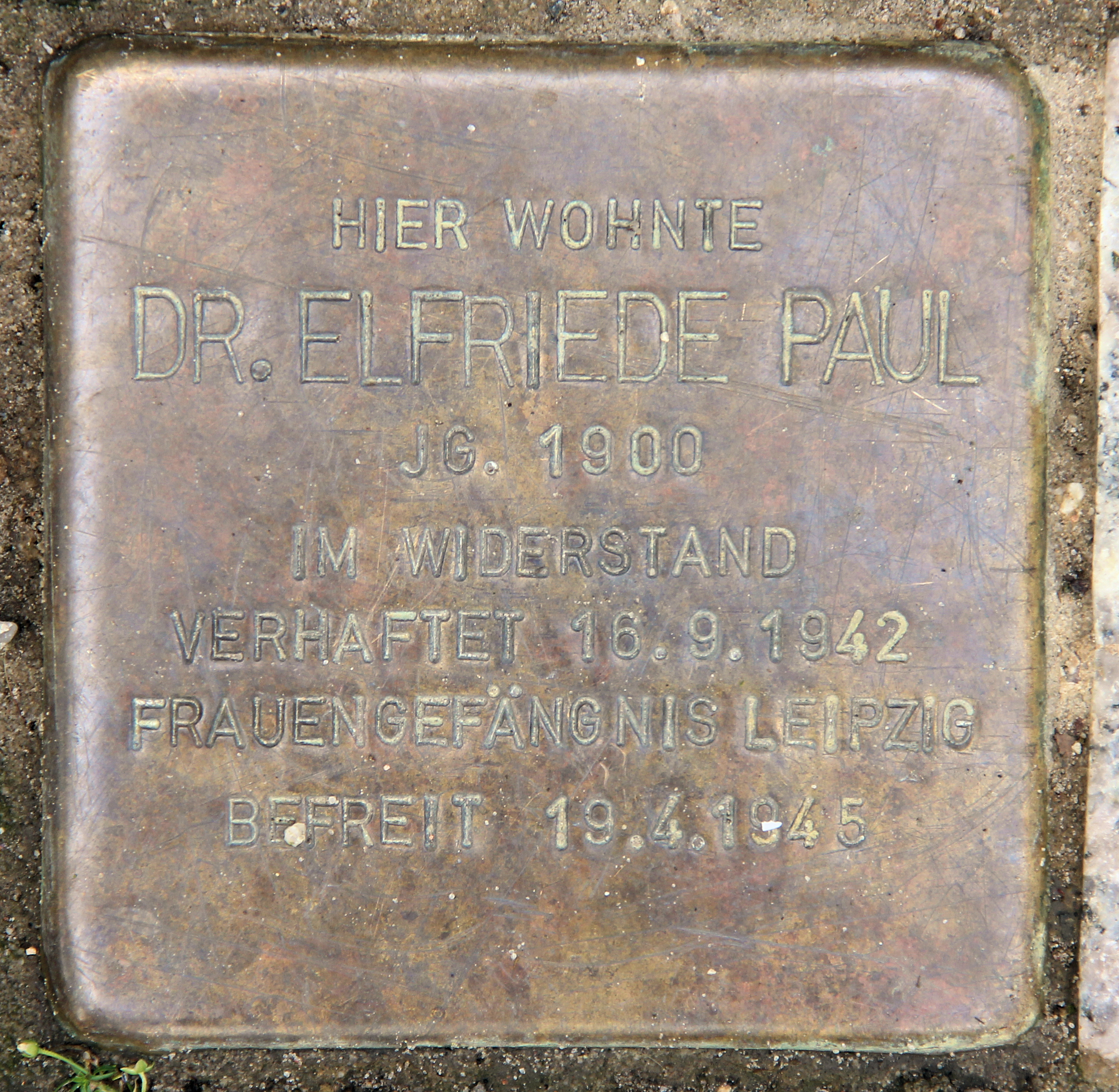 "Stolperstein" (stumbling block), Elfriede Paul, Sächsische Straße 63a, Berlin-Wilmersdorf, Germany Koordinate:52°29′44″N 13°19′5″E / 52.49556°N 13.31806°E